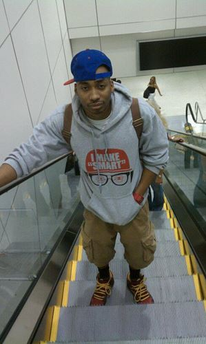 A photo of Prince Ea I took at the airport